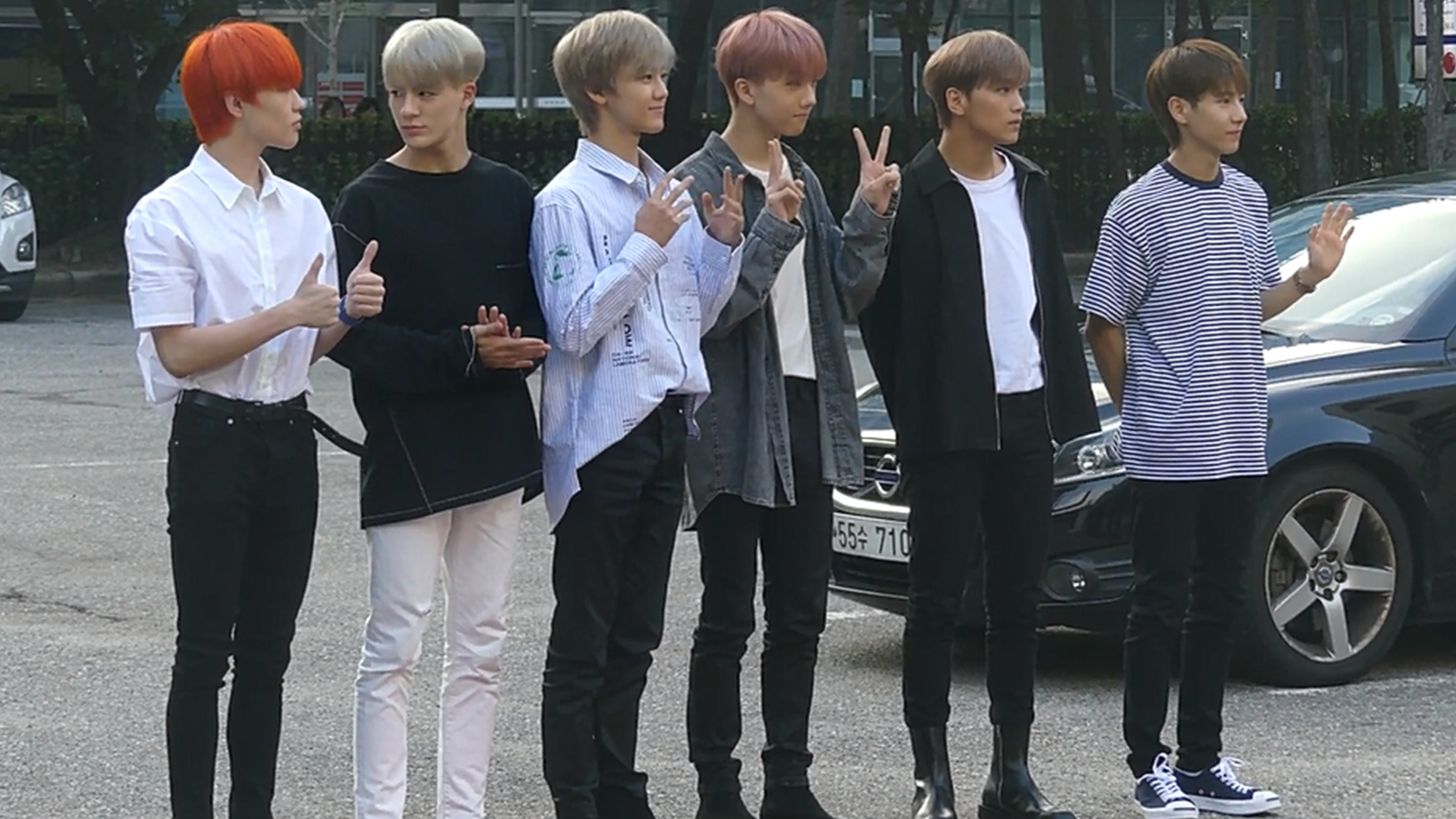 NCT Dream going to a Music Bank recording on August 2, 2019. (L-R: Chenle, Jeno, Jaemin, Jisung, Haechan and Renjun.)